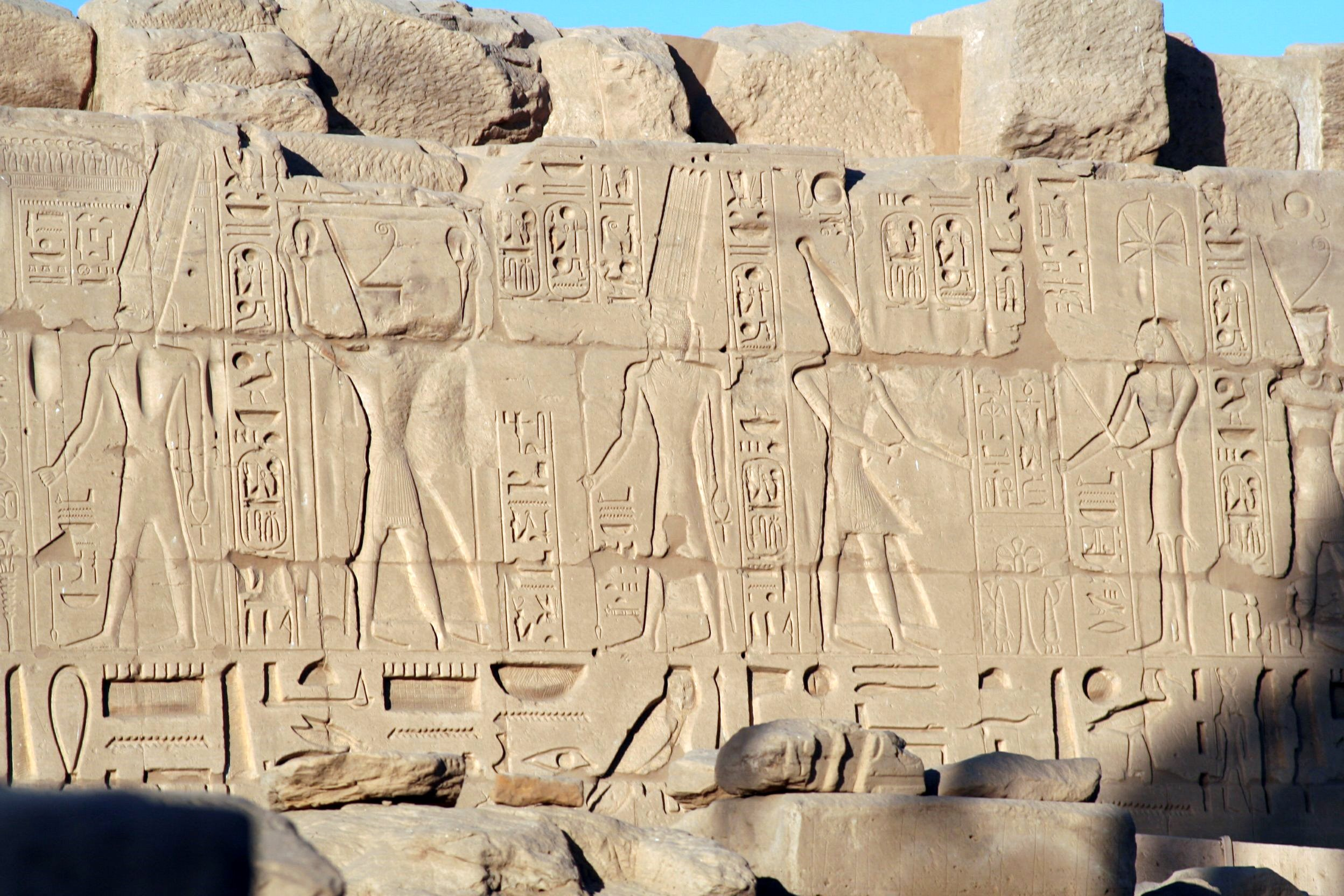 Amun-Ra, Ramses II and Anhur, Ramses II and Seshat. Karnak Temple.